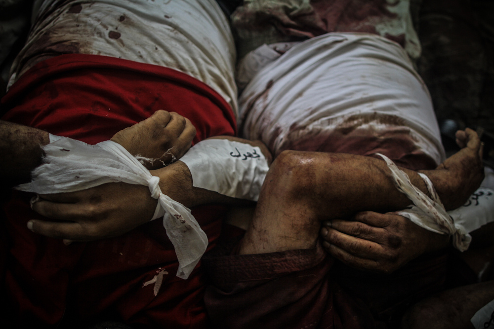 unknown Killed protester